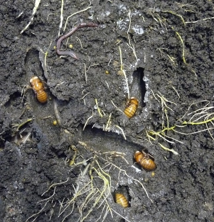 Fifth instar chorus cicada (Amphipsalta zelandica) nymphs in soil